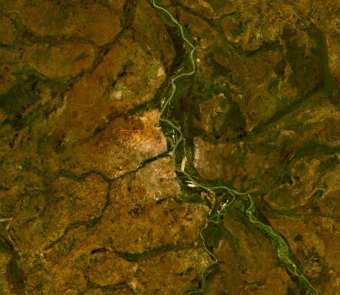 Satelliteimage of the city Wau in Southern Sudan, see Wau, Sudan. Jur river, the upper course of the river Bahr al-Ghazal, is visible.